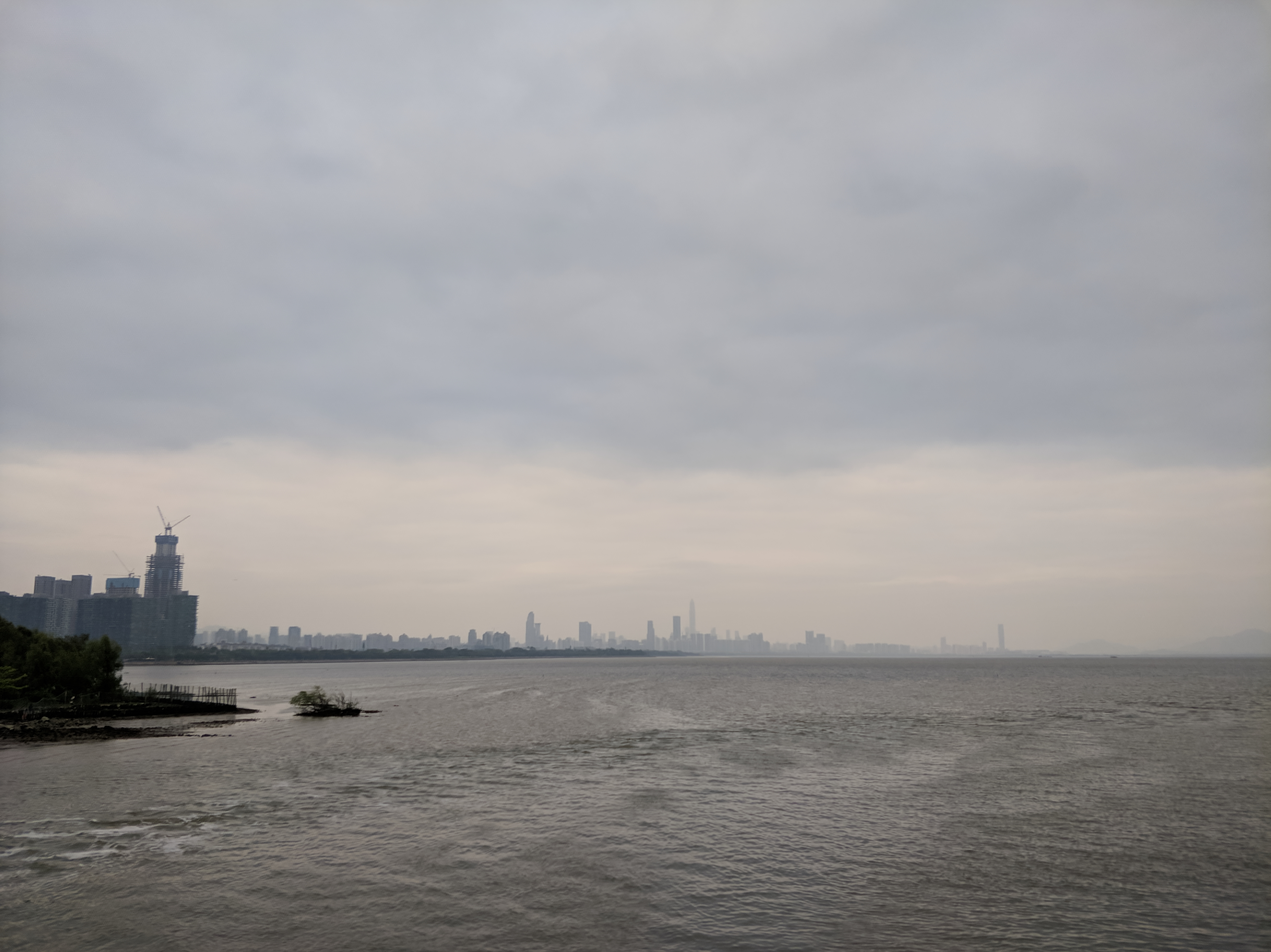 The Deep bay